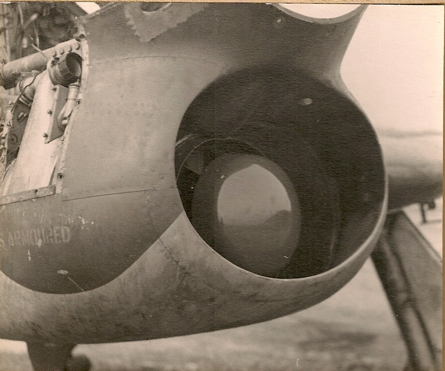 Close up of the Momentum Air Filter fitted to a Hawker Typhoon in June 1944